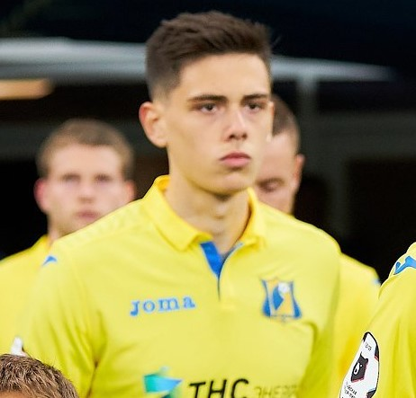 Dennis Hadžikadunić